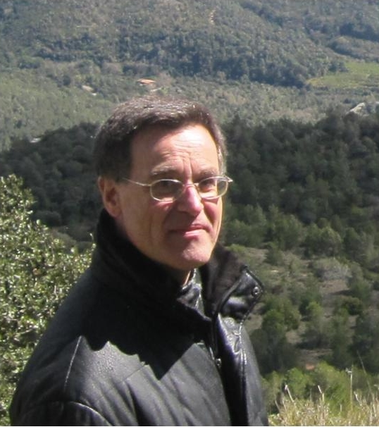 Abel Montagut in Almussara